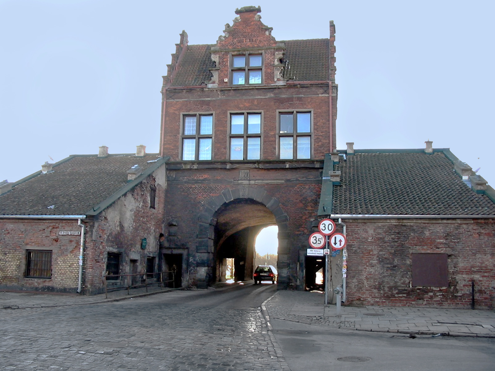 Lowland Gate, Gdańsk, Poland (1626)